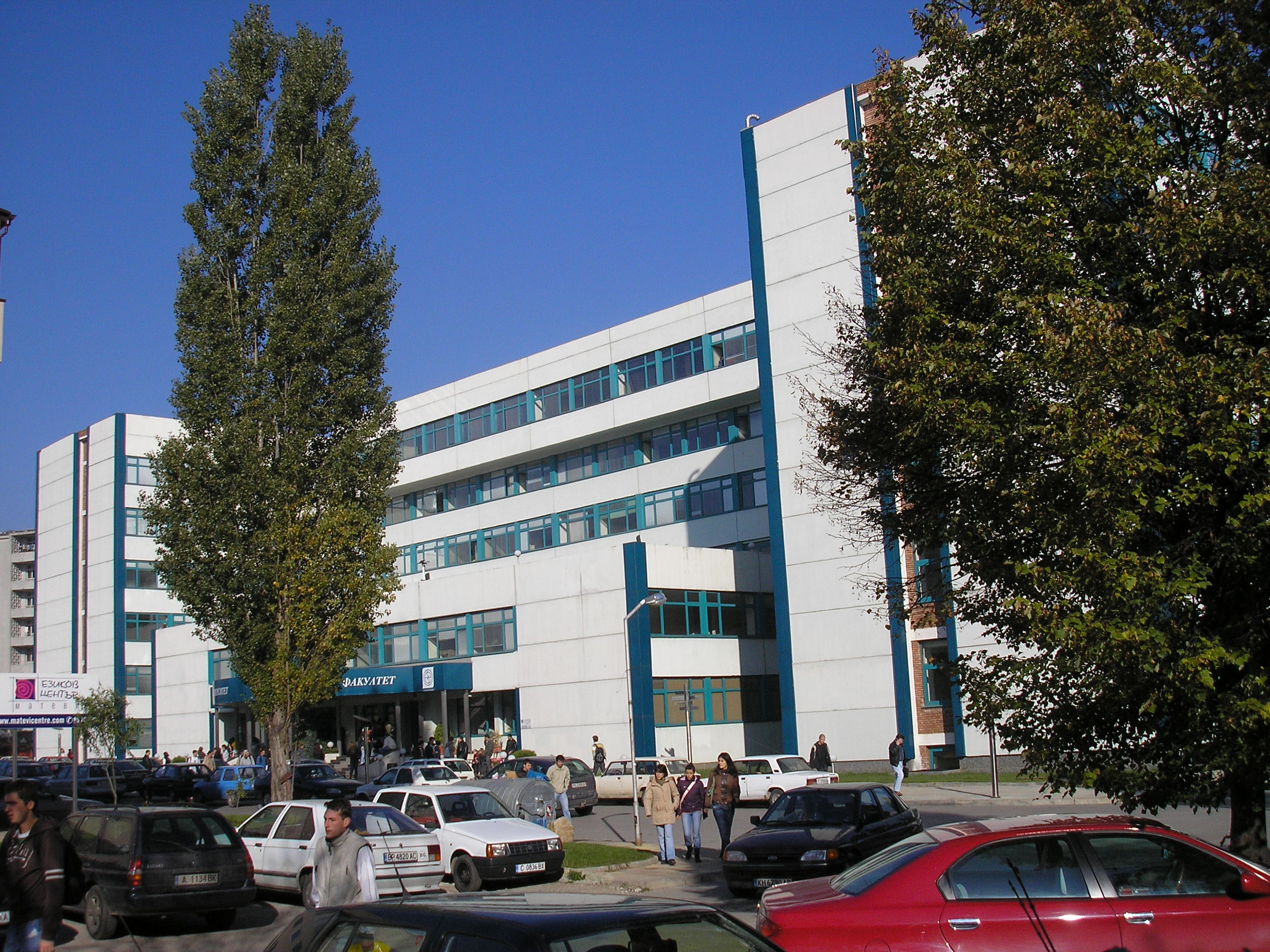 The building of electrotechnical faculty of TU Sofia